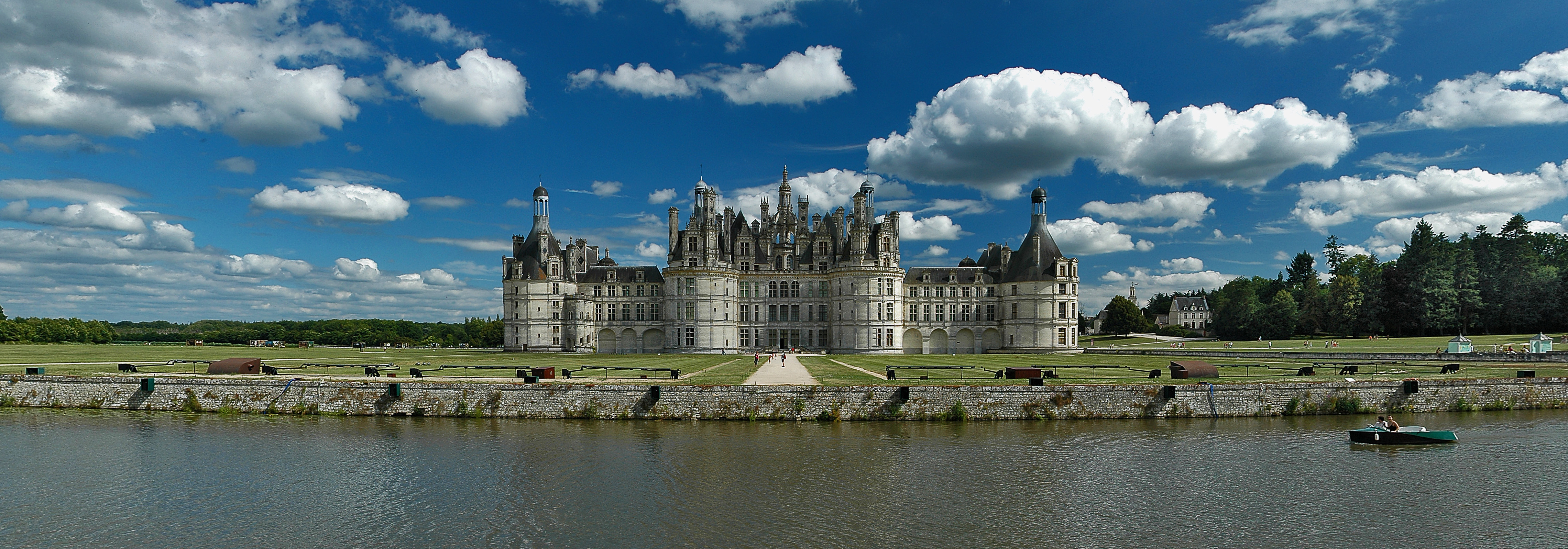 North façade of Château de Chambord